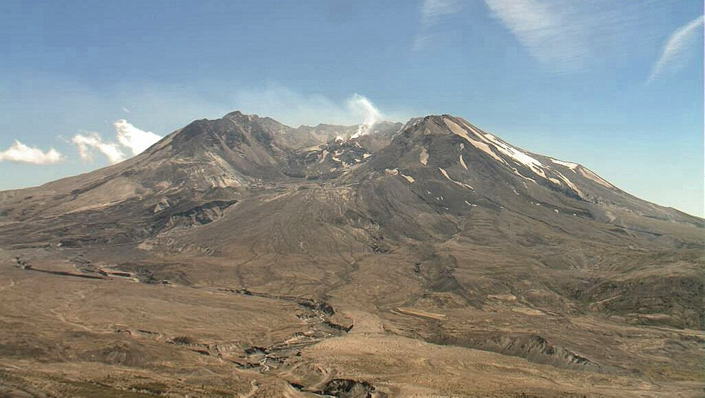 Mount St. Helens from Johnston Ridge, US FS Webcam on 2007-07-27